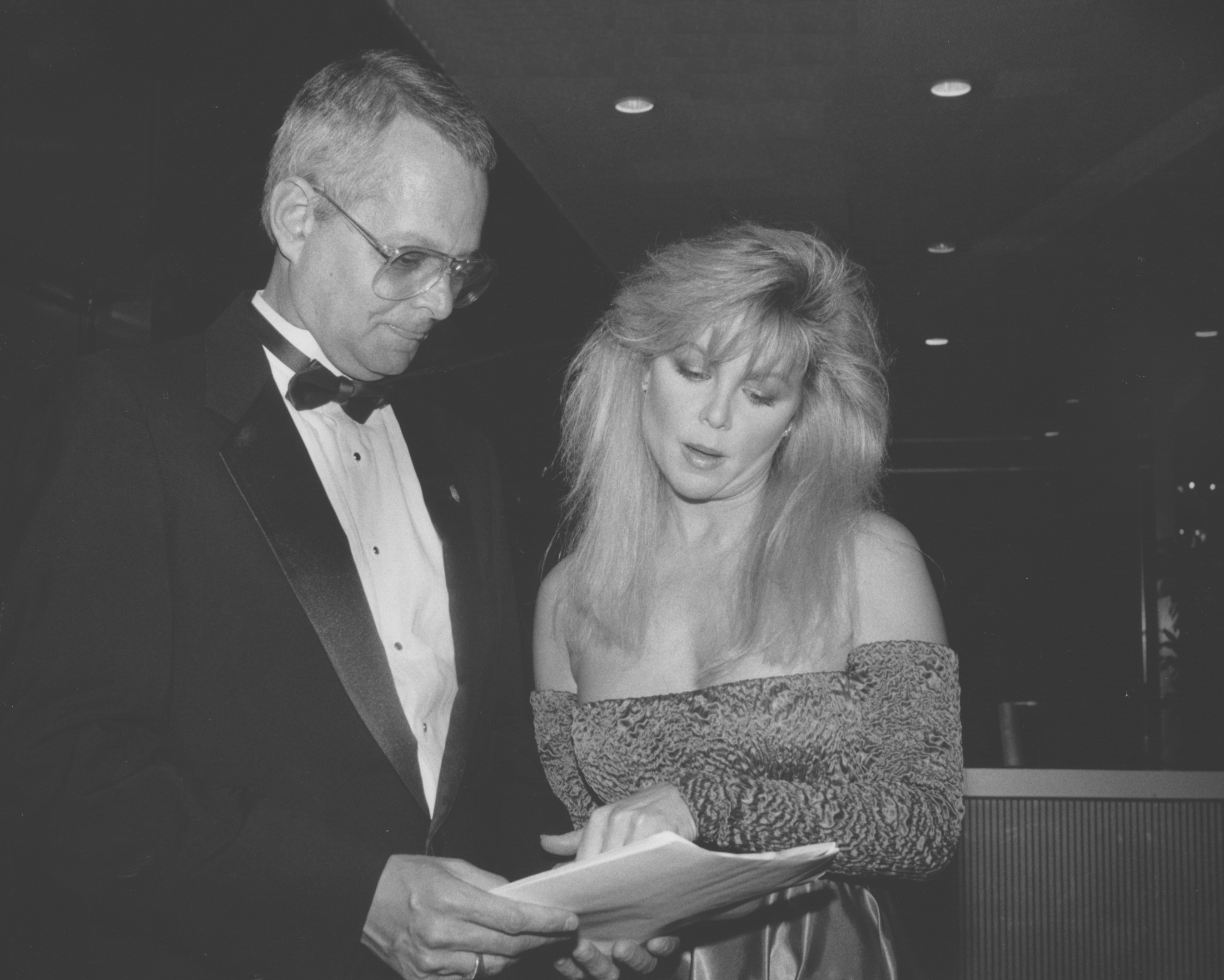 Ken Haines and Lisa Hartman